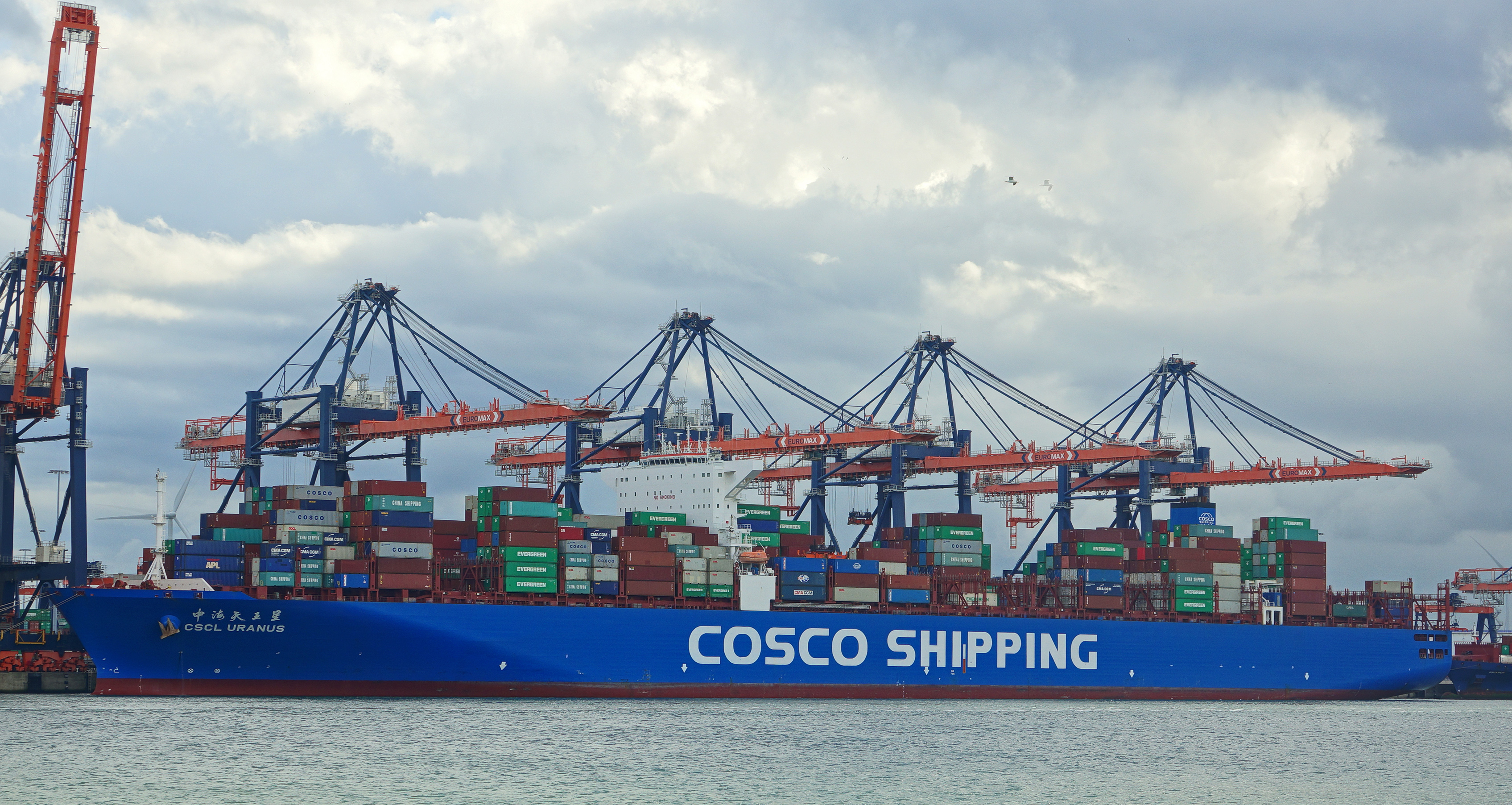 Euromax terminal Yangtzehaven 30-7-2017